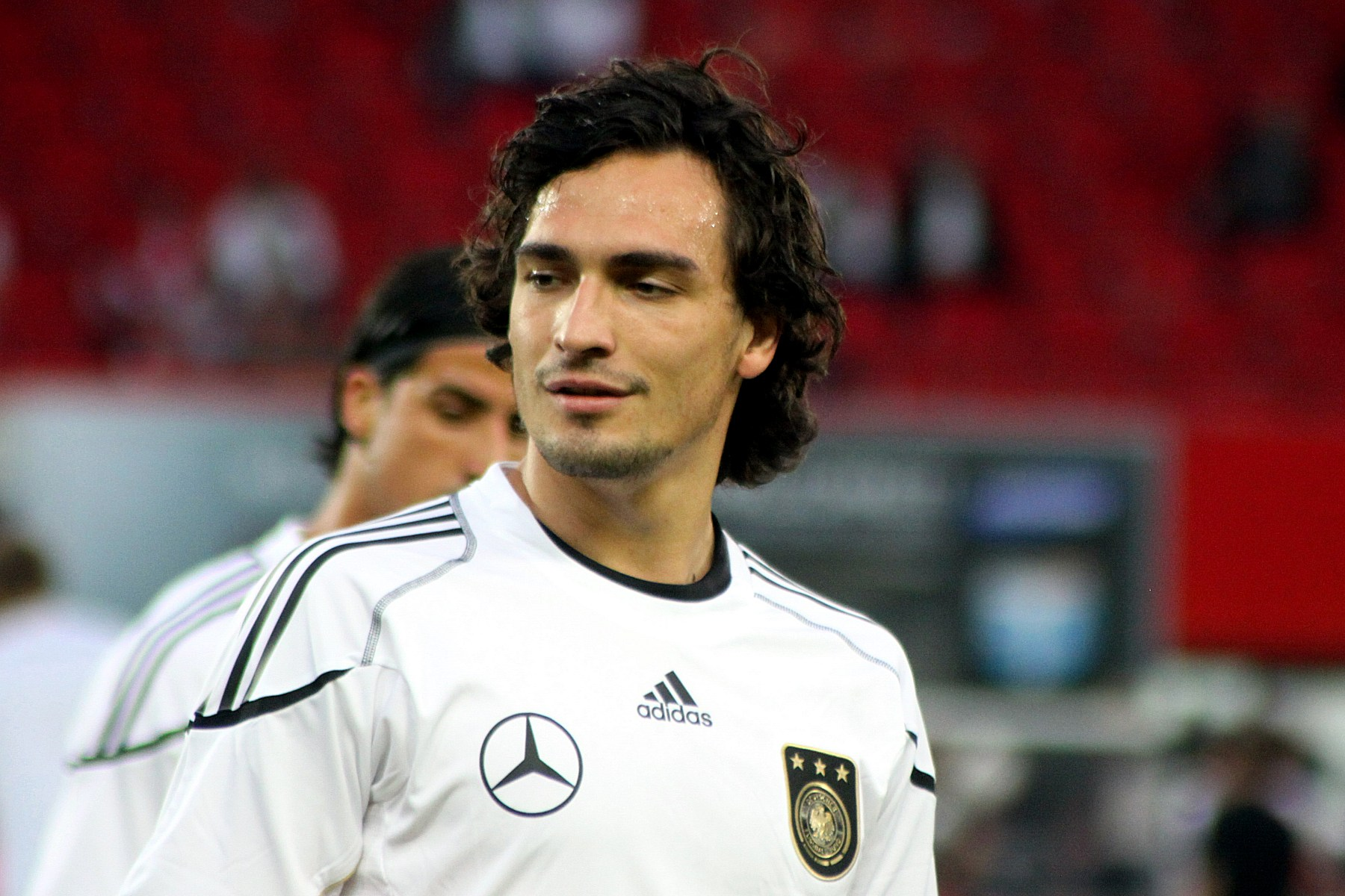 Mats Hummels (Borussia Dortmund), german national football team - OpenStreetMap(Info)